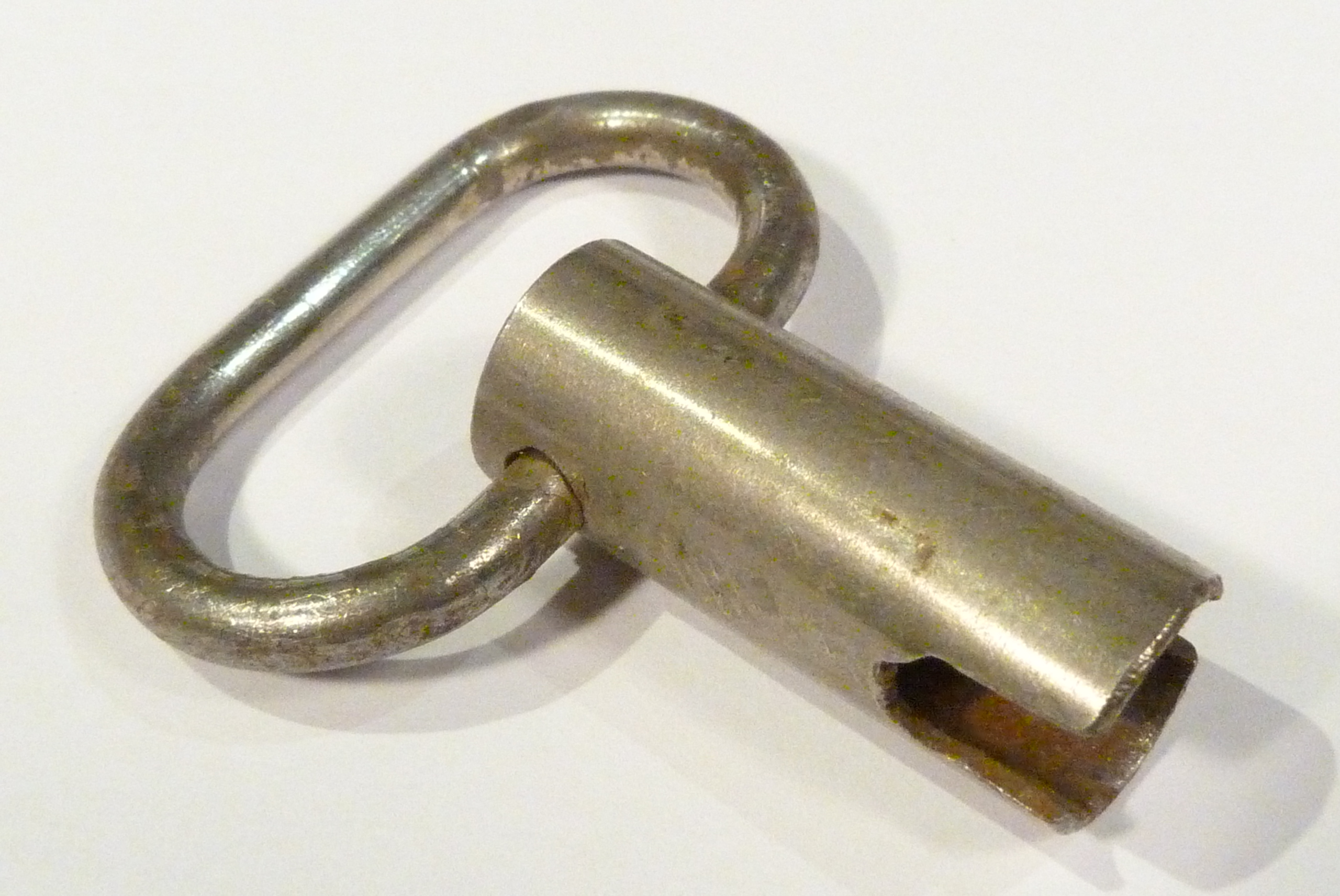 Winding key for a time recording clock (about 1970)